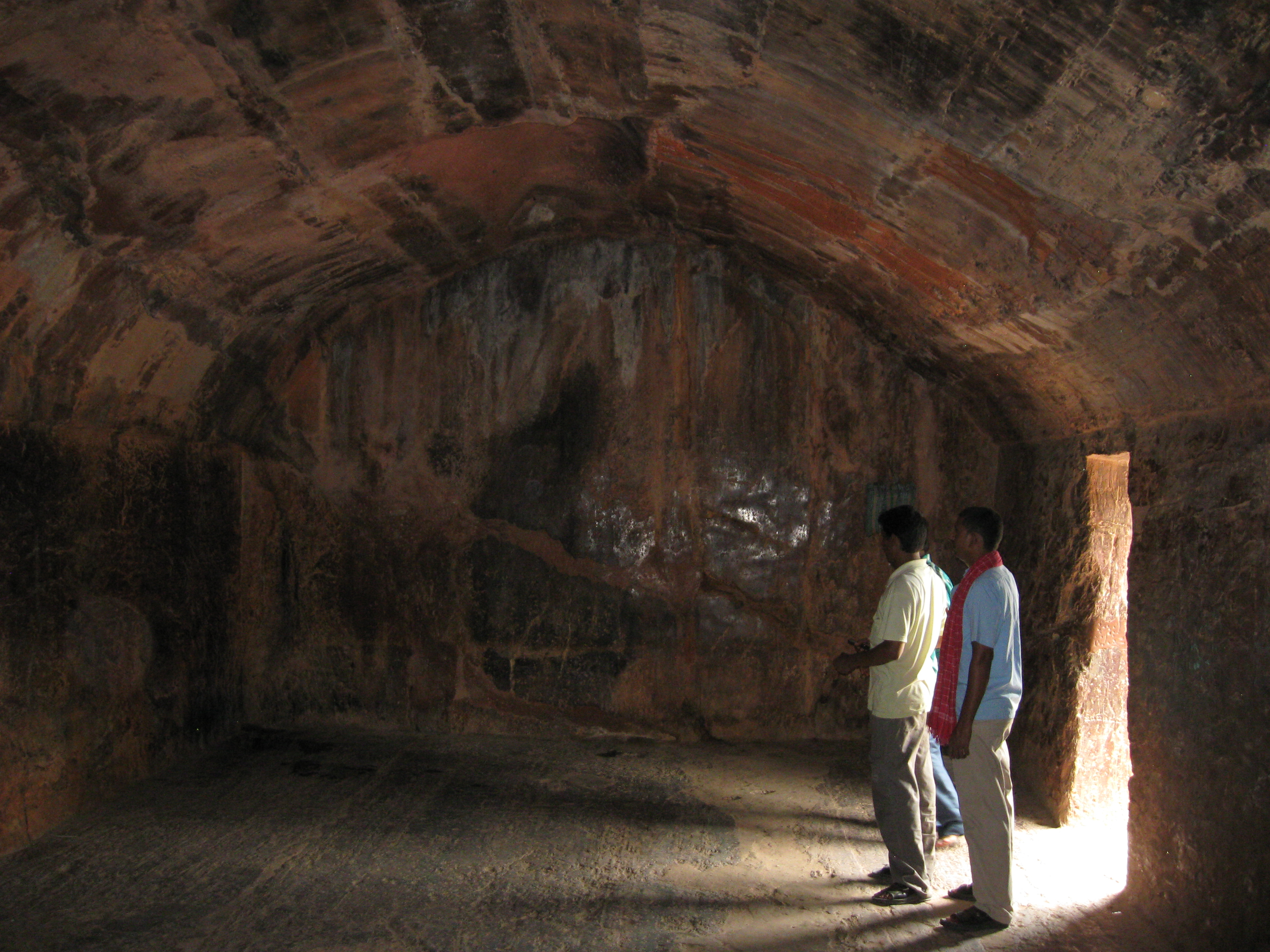 This place situated at Rajgir, states Bihar.